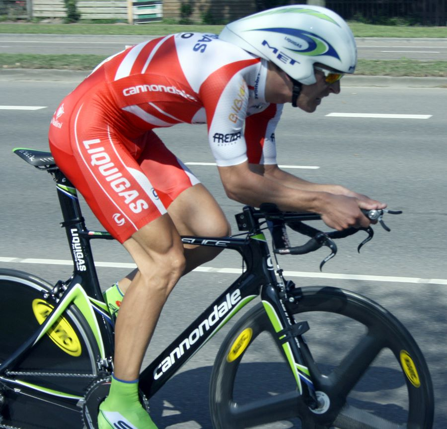 Maciej Bodnar at the 2009 Eneco Tour prologue